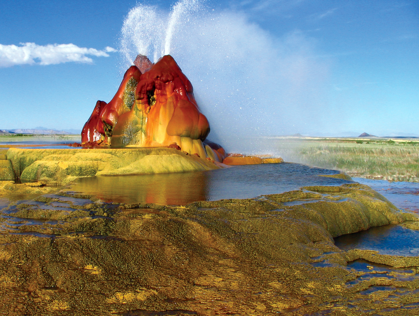 Fly Geyser in the Black Rock Desert, Nevada.